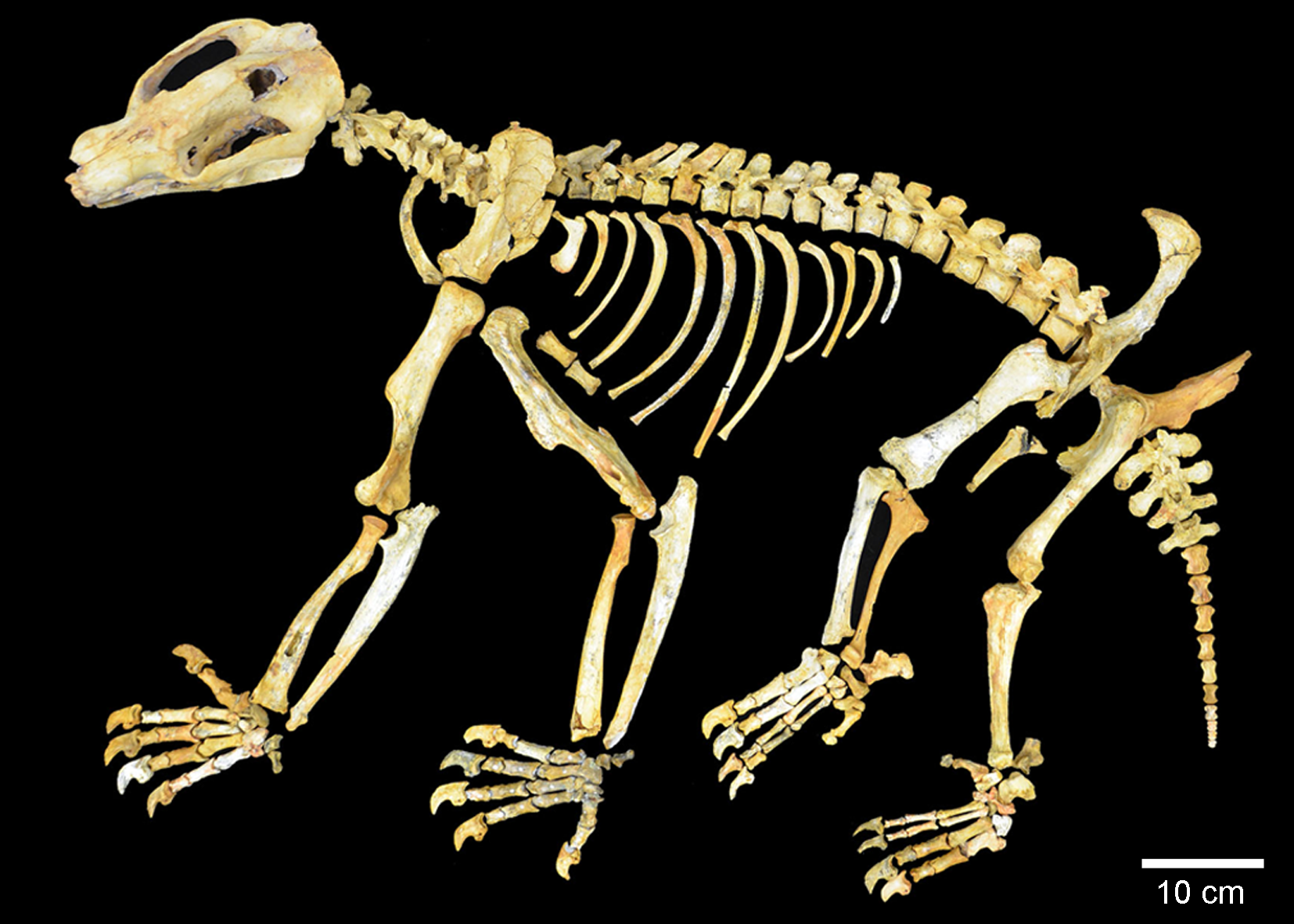 Composite Nimbadon lavarackorum skeleton from AL90, Riversleigh.